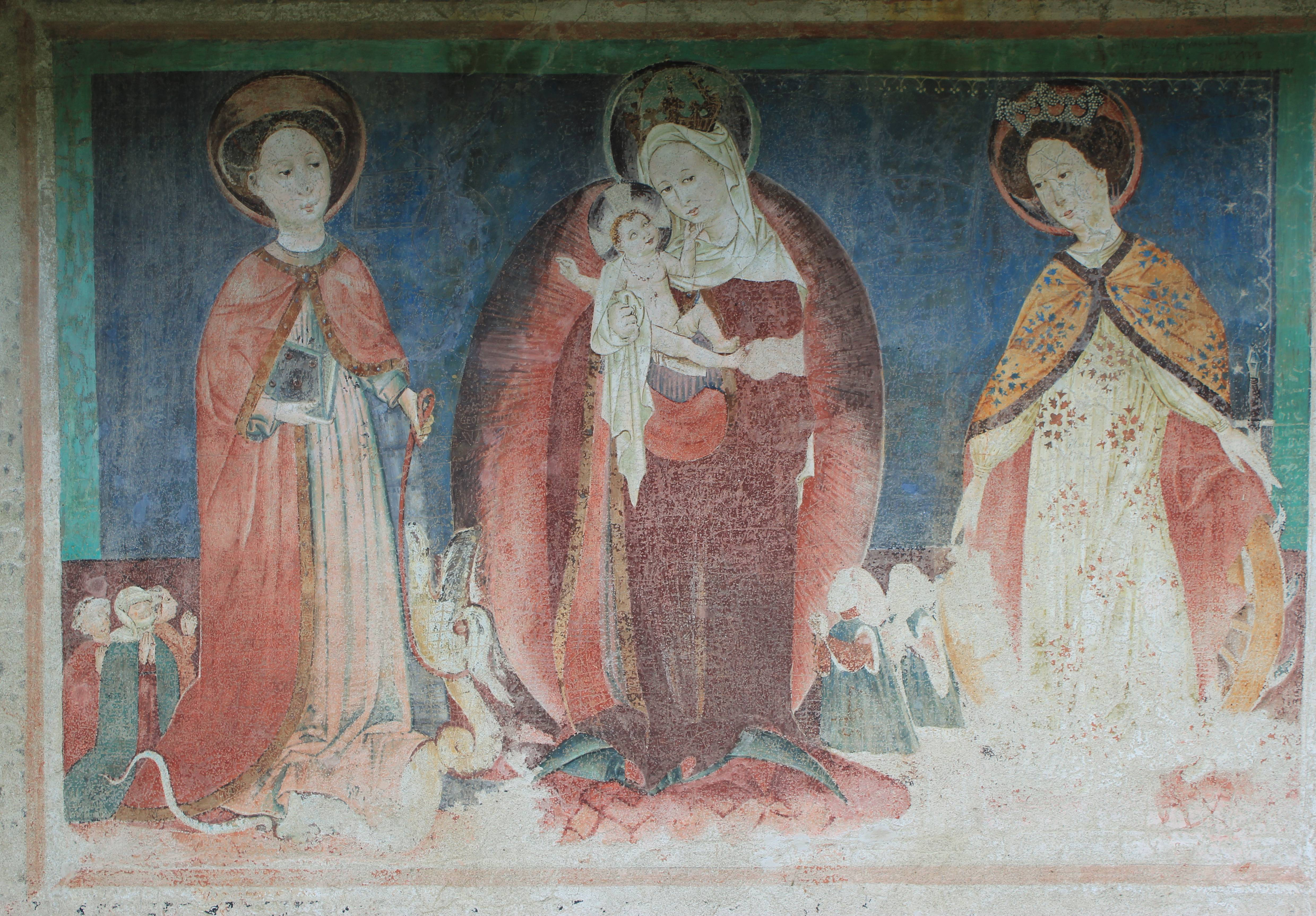 Lieding in the community Straßburg - Church - Fresco